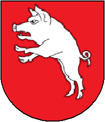 Coat of arms of Bure, Canton of Jura, Switzerland